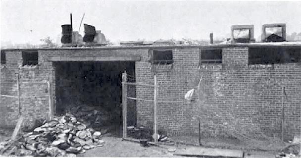 The 20th Century Fox film storage facility in Little Ferry, New Jersey after the 9 July vault fire; film cans are being removed for silver reclamation.